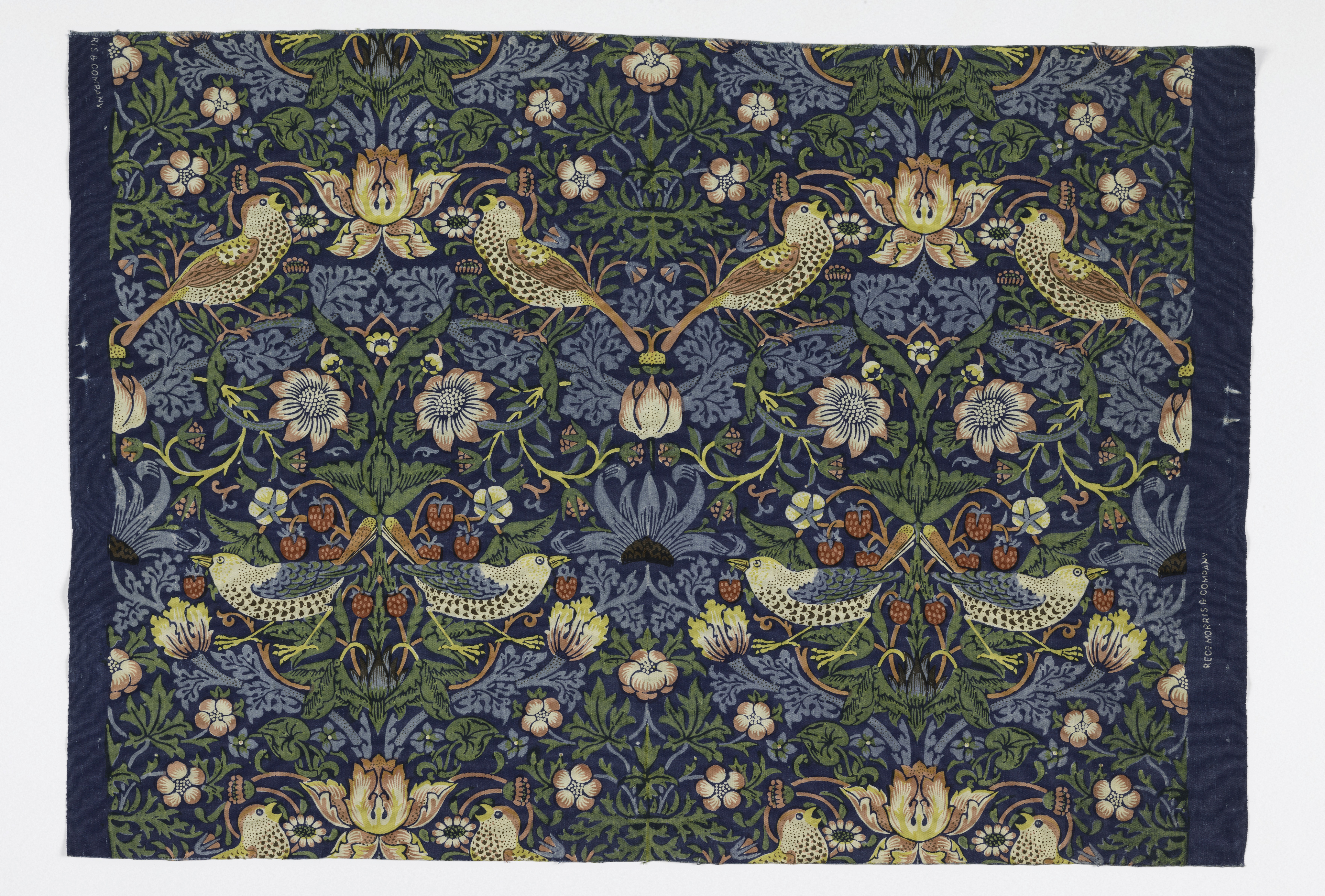 Vertically symmetrical arrangement of pairs of confronted and addorsed birds, with strawberries and flowers. Printed in several colors on a dark blue ground.